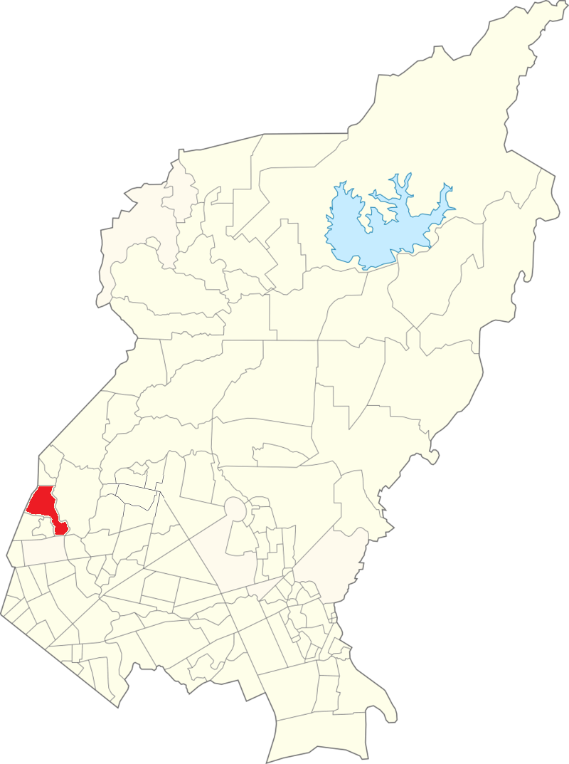 Balingasa, Quezon City, Metro Manila, Philippines